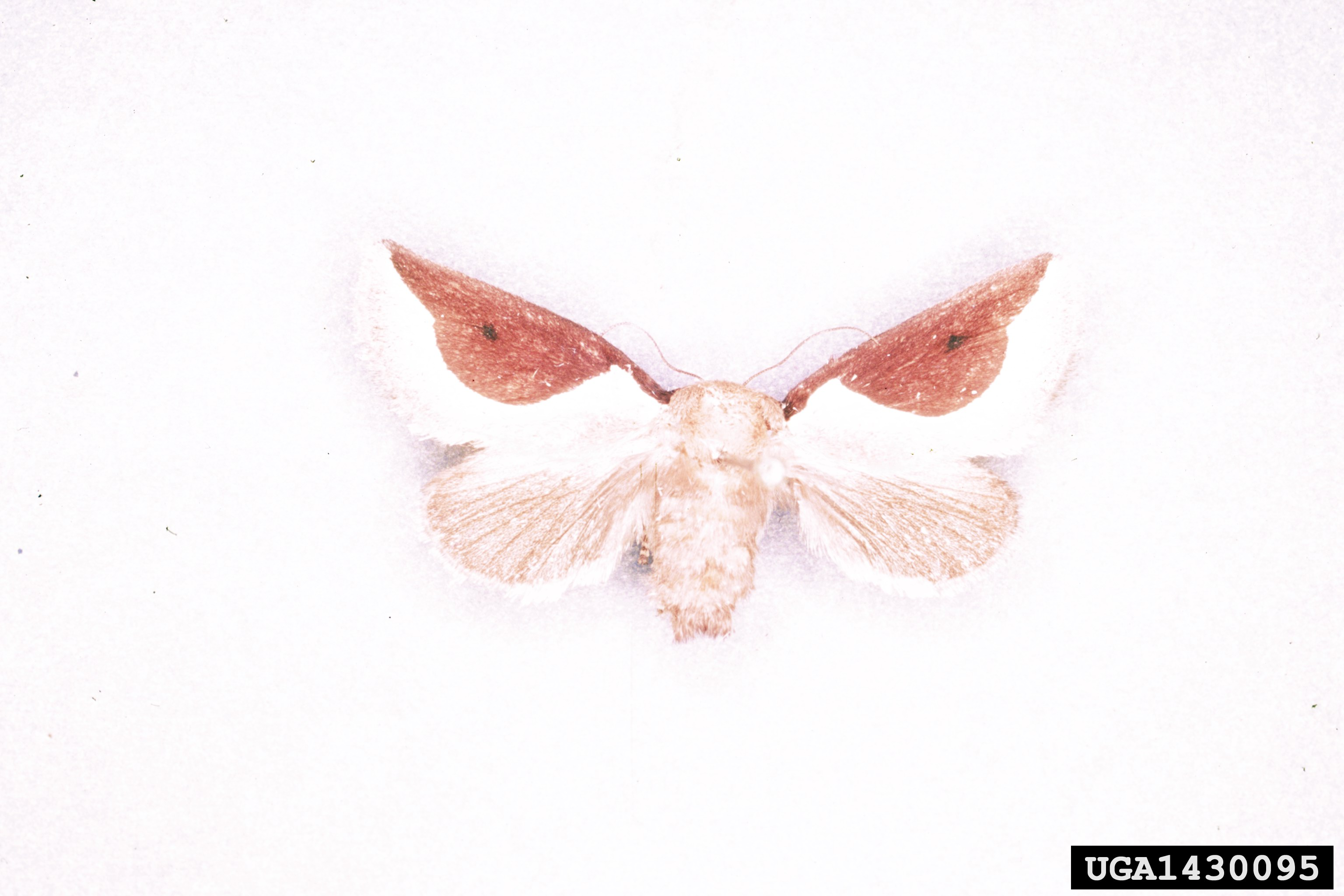 Prolimacodes_badia_adult